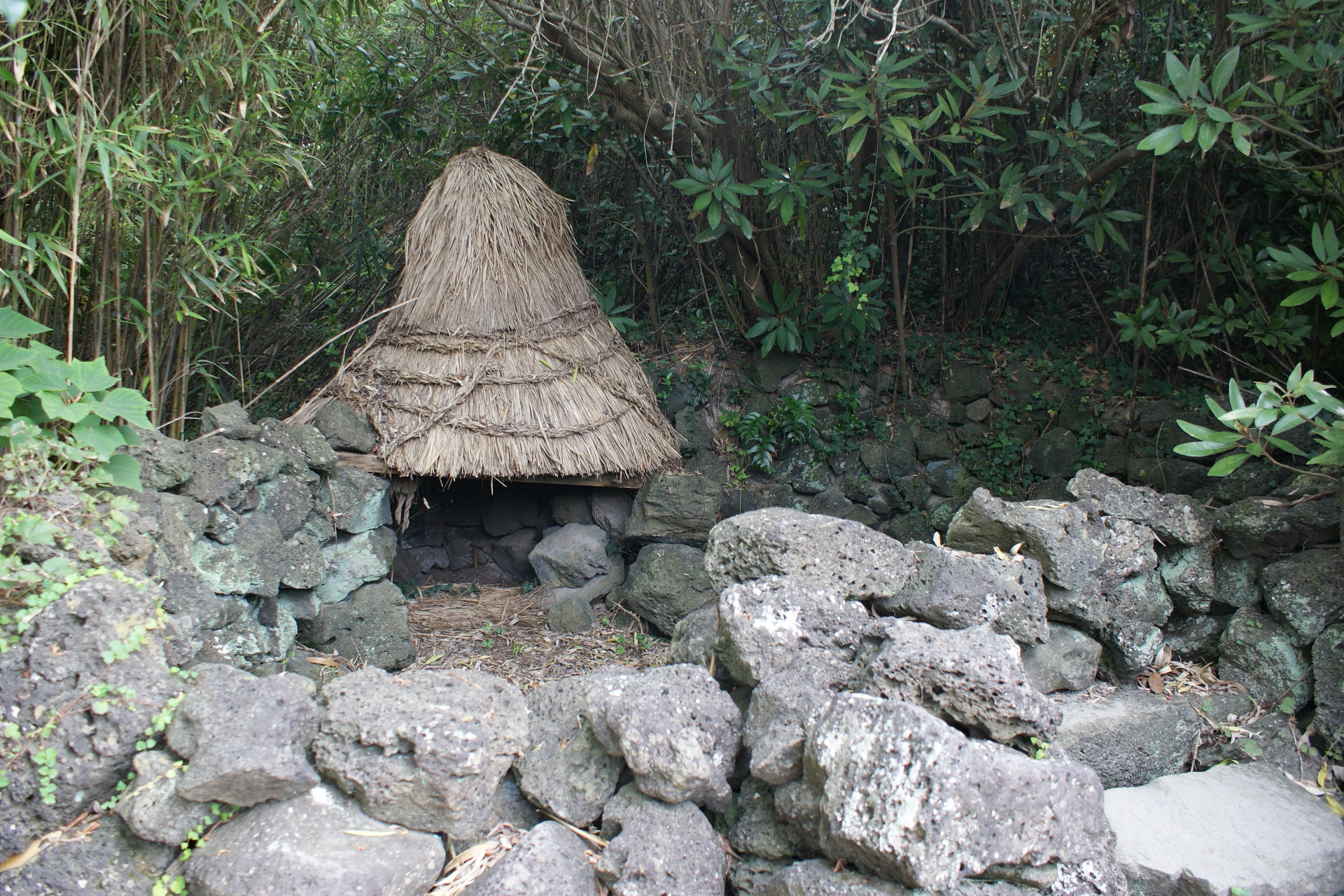 pig toilet that is displayed at Jeju Folk Village Museum, Republic of Korea